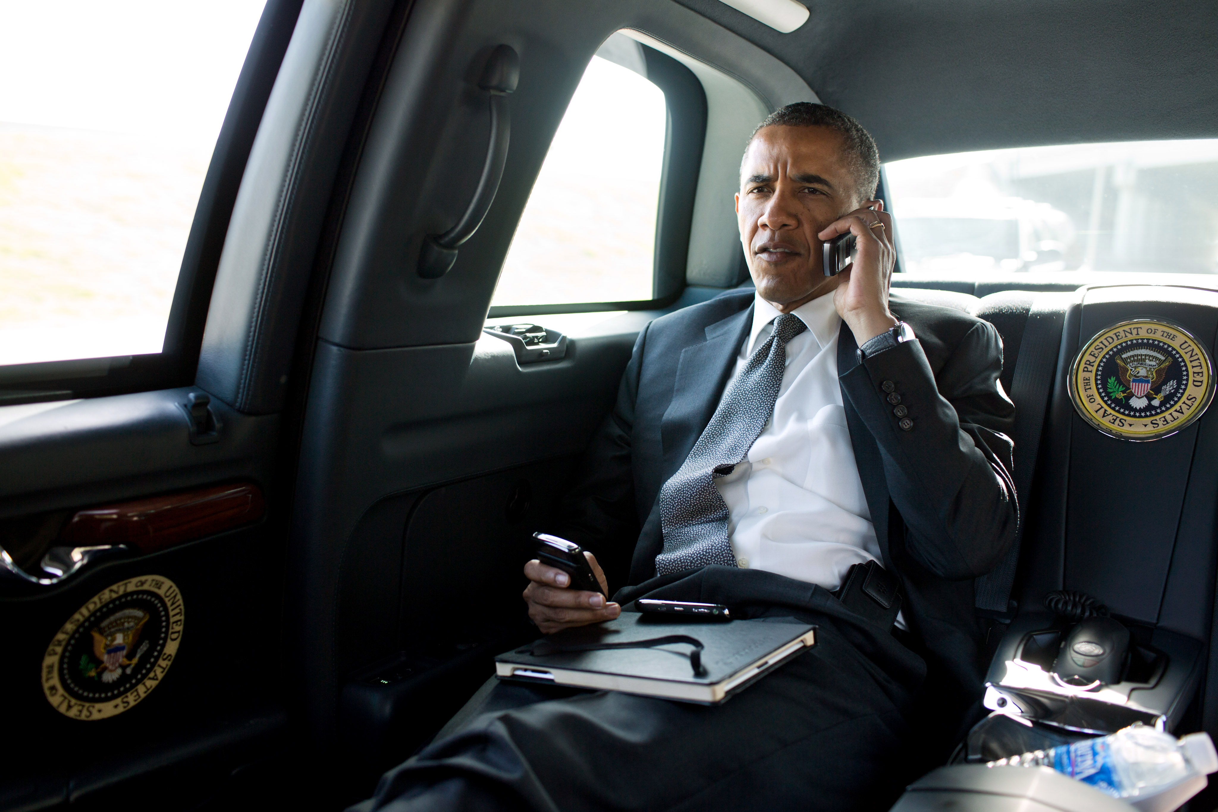 President Barack Obama talks on the phone with Aurora Mayor Steve Hogan during the motorcade ride to Palm Beach International Airport in Palm Beach, Fla., July 20, 2012. The President called Mayor Hogan to offer his condolences and support to the Aurora community.